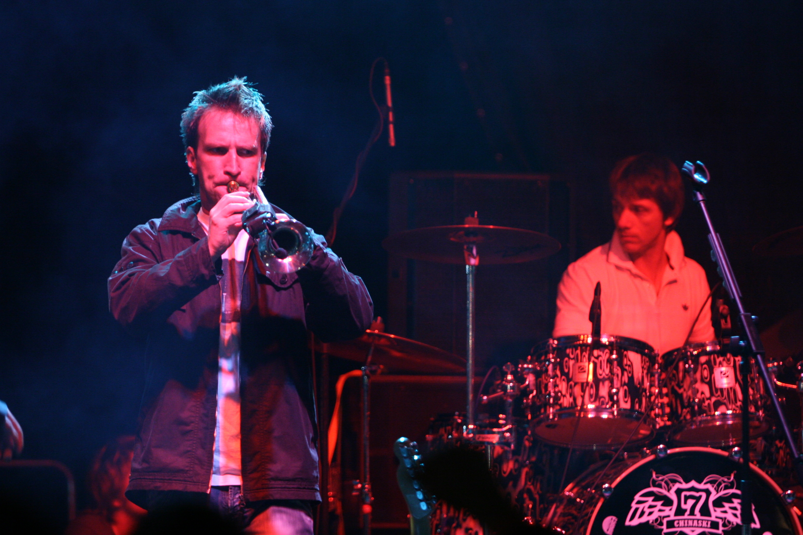 Petr Kužvart (in foreground) and Pavel Grohman on Chinaski concert, Majáles in Prague